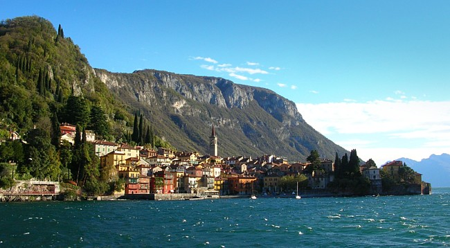 Varenna seen from the lake picture taken by user:Idéfix, november 2004